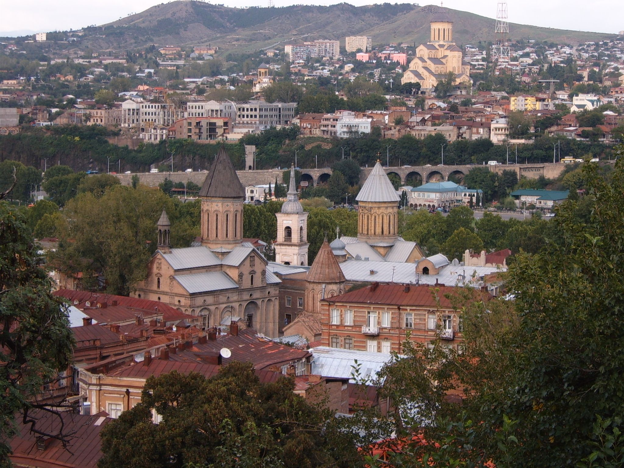 The view of central part of Tbilisi, Georgia (2005)